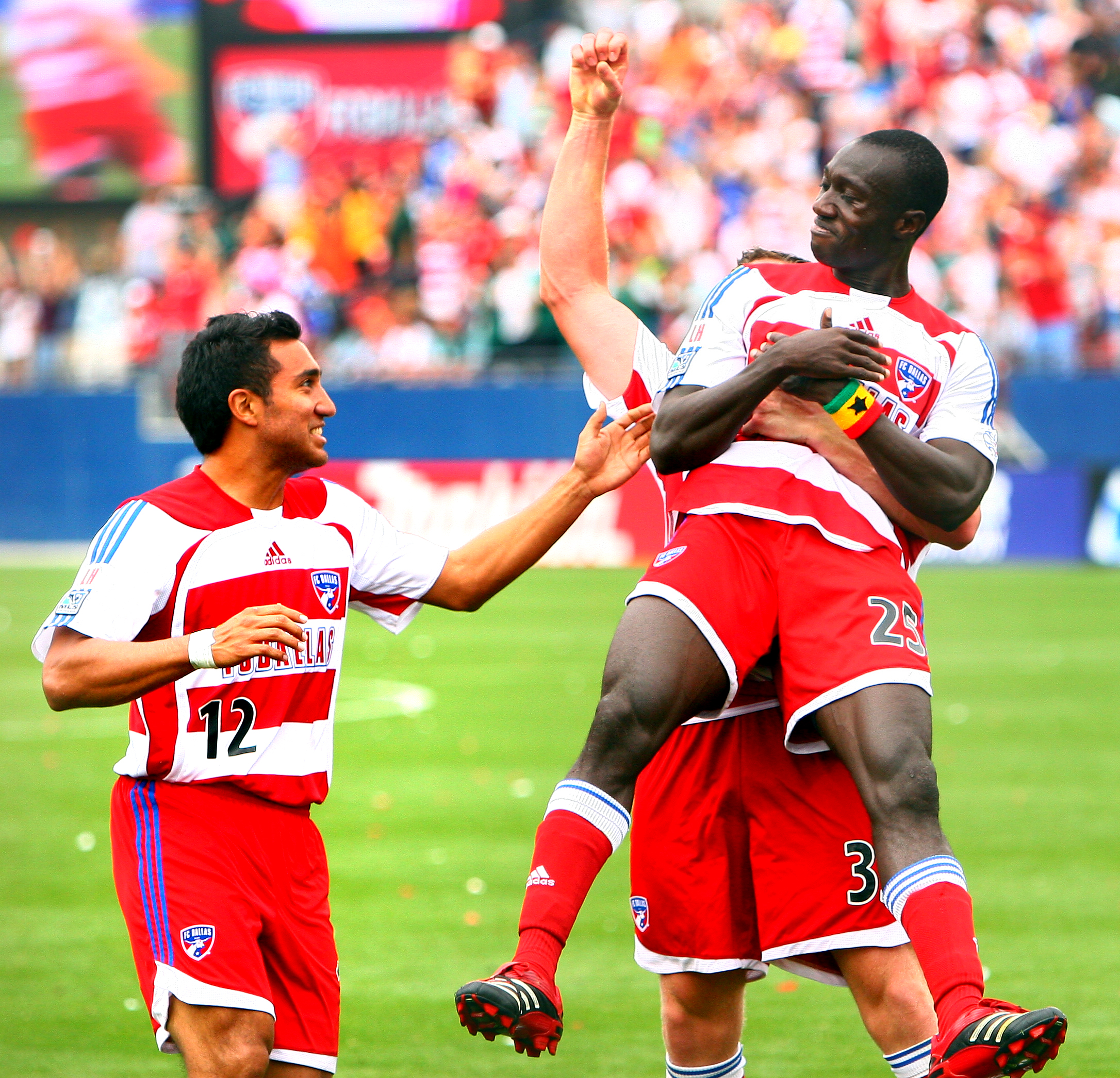 Arturo Alvarez (12) celebrates with Dominic Oduro (25).